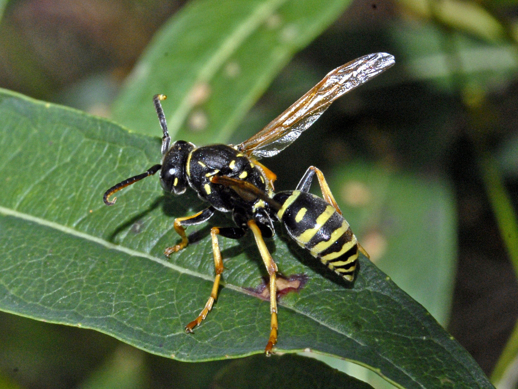 Polistes biglumis bimaculatus. La Thuile, Aosta, Italy